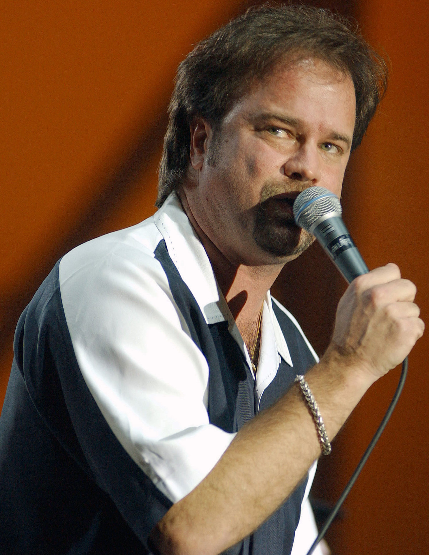 Vocalist Larry Stewart with the band Restless Heart performs for military members and their families during the USO (United Service Organization) Operation Seasons Greetings tour at Ramstein Air Base (AB), Germany. ID: DF-SD-06-00751